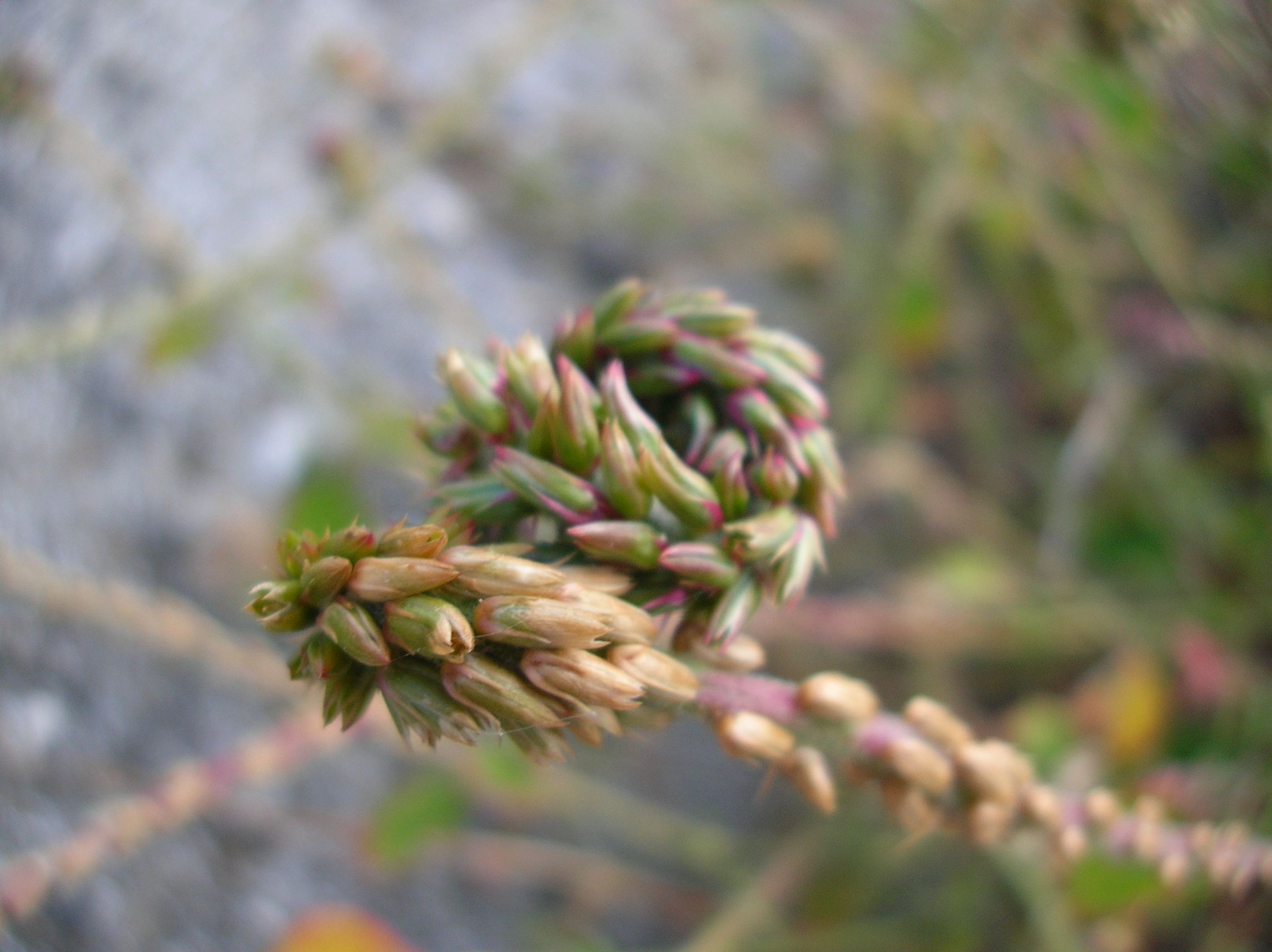 Achyranthes aspera var. aspera (seed spike). Location: Oahu, Manana